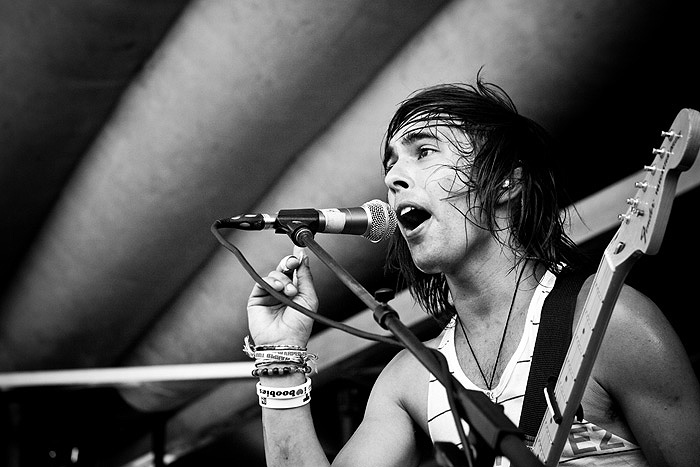 Photo of Vic Fuentes